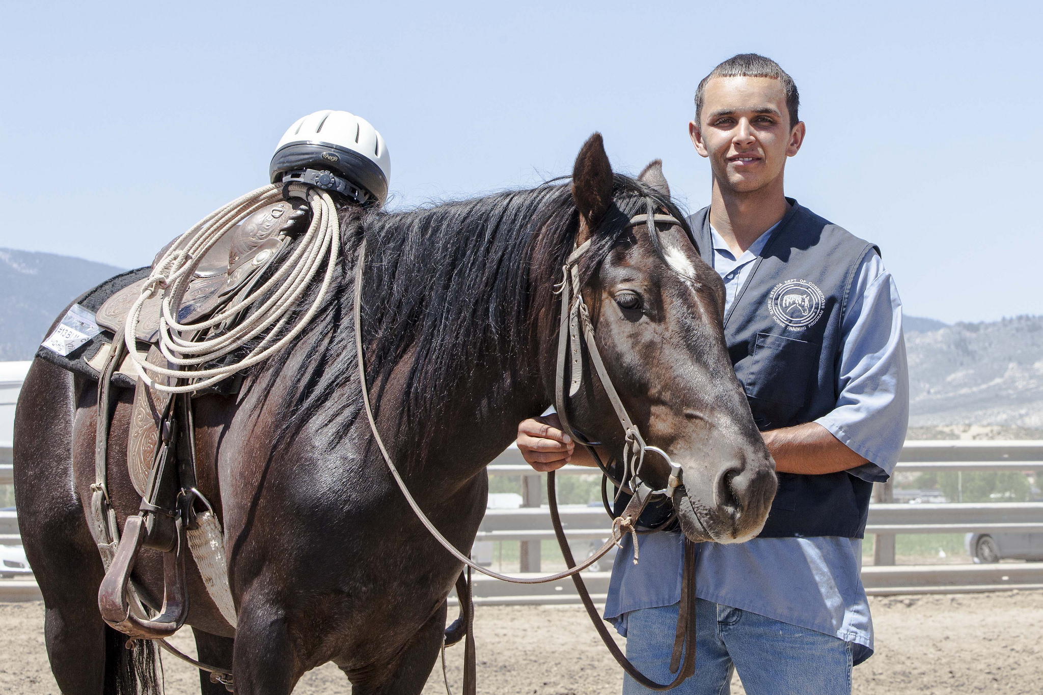 Through a partnership between the BLM and the Nevada Department of Corrections-Silver State Industries, inmates at the Northern Nevada Correctional Center gentle and train wild horses and burros for adoption. On average, sixty wild horses and burros are trained and adopted at the facility each year - over 1,000 total. Some are adopted by the public; others by organizations like California Fish and Game, Border Patrol, and other law enforcement. Nearly 300 inmates have participated in the program as trainers, many with no prior experience with horses. The training program has become a win-win for everyone involved - for the BLM and Nevada Department of Corrections, for the inmates and the horses, and for the adopters.